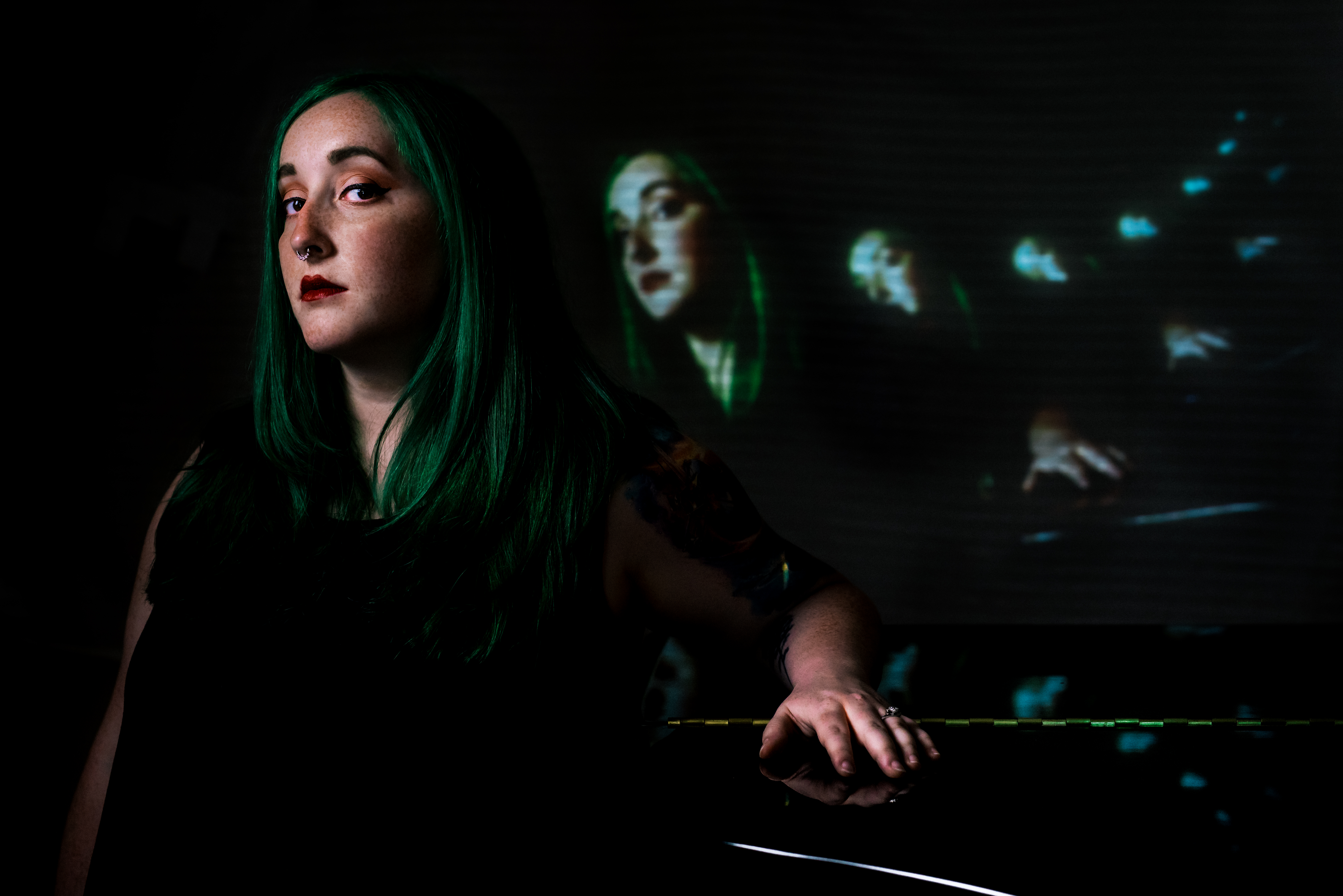 Depicts the composer Bekah Simms, for their Wikipedia page